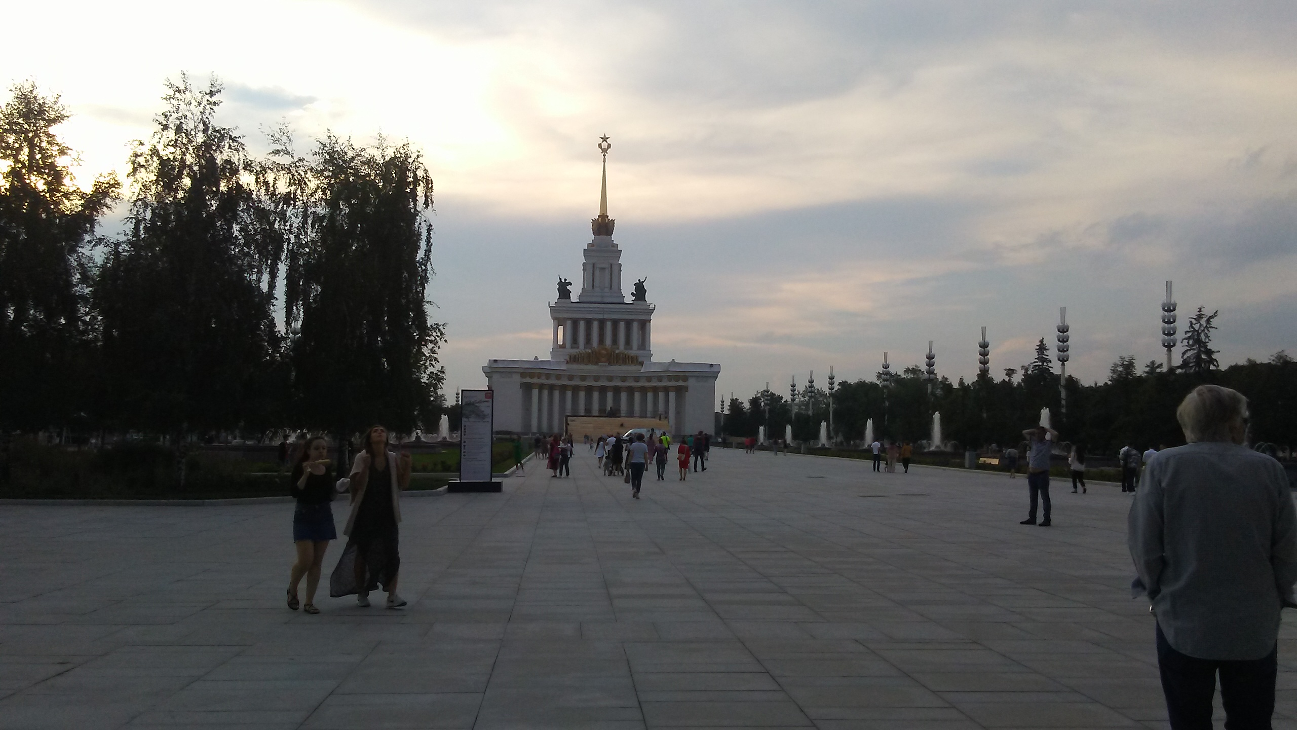 VDNKH Central Pavilion in Moscow